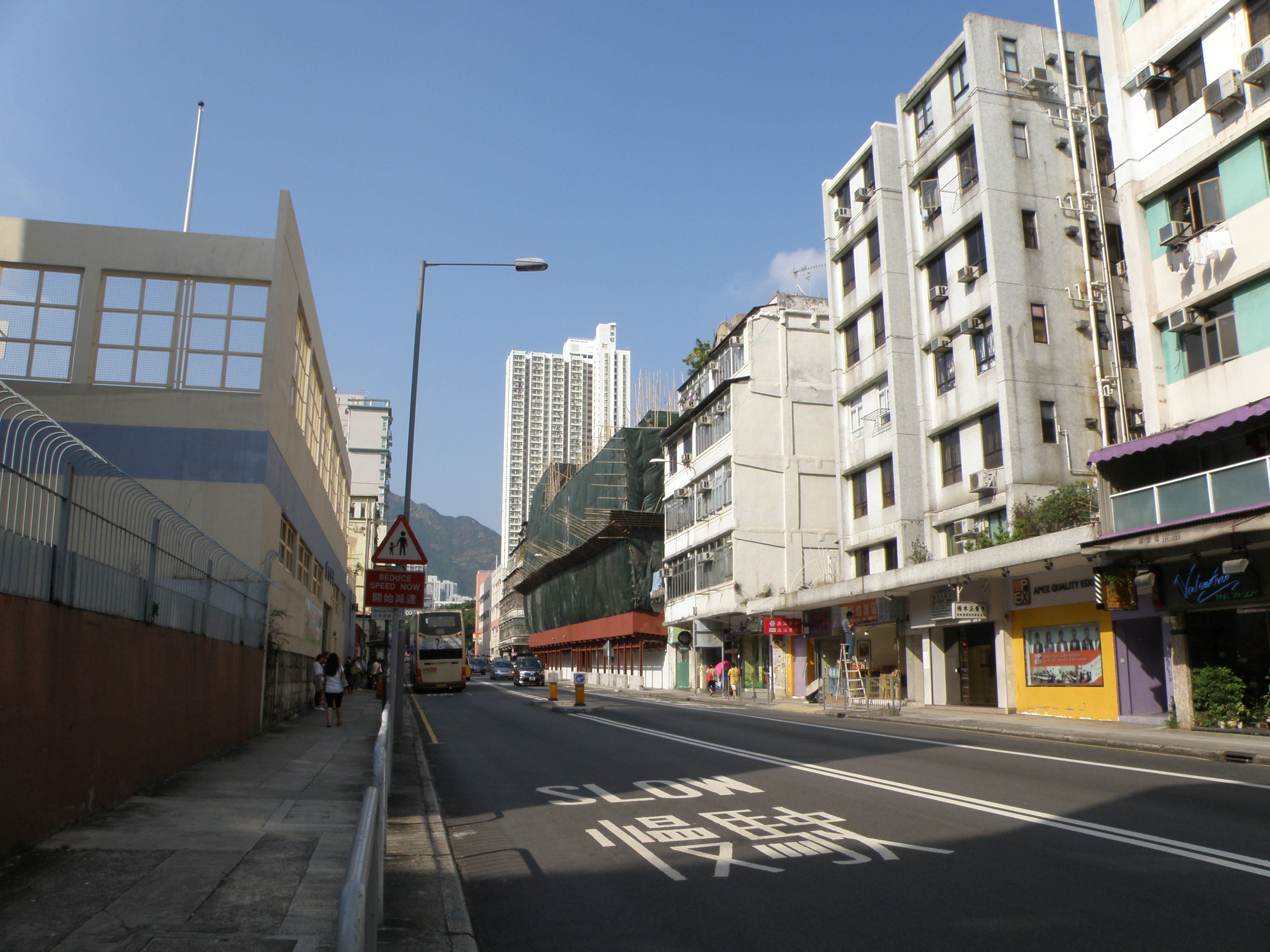 Junction Road in Kowloon City, Hong Kong.